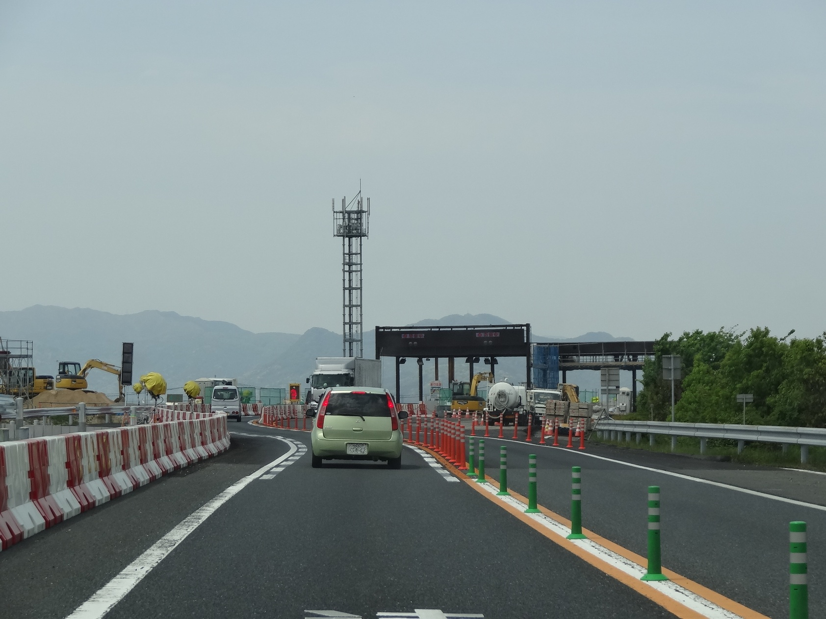 National Route 10 "Shiida Road" in Miyako Town, Fukuoka Prefecture, Japan.